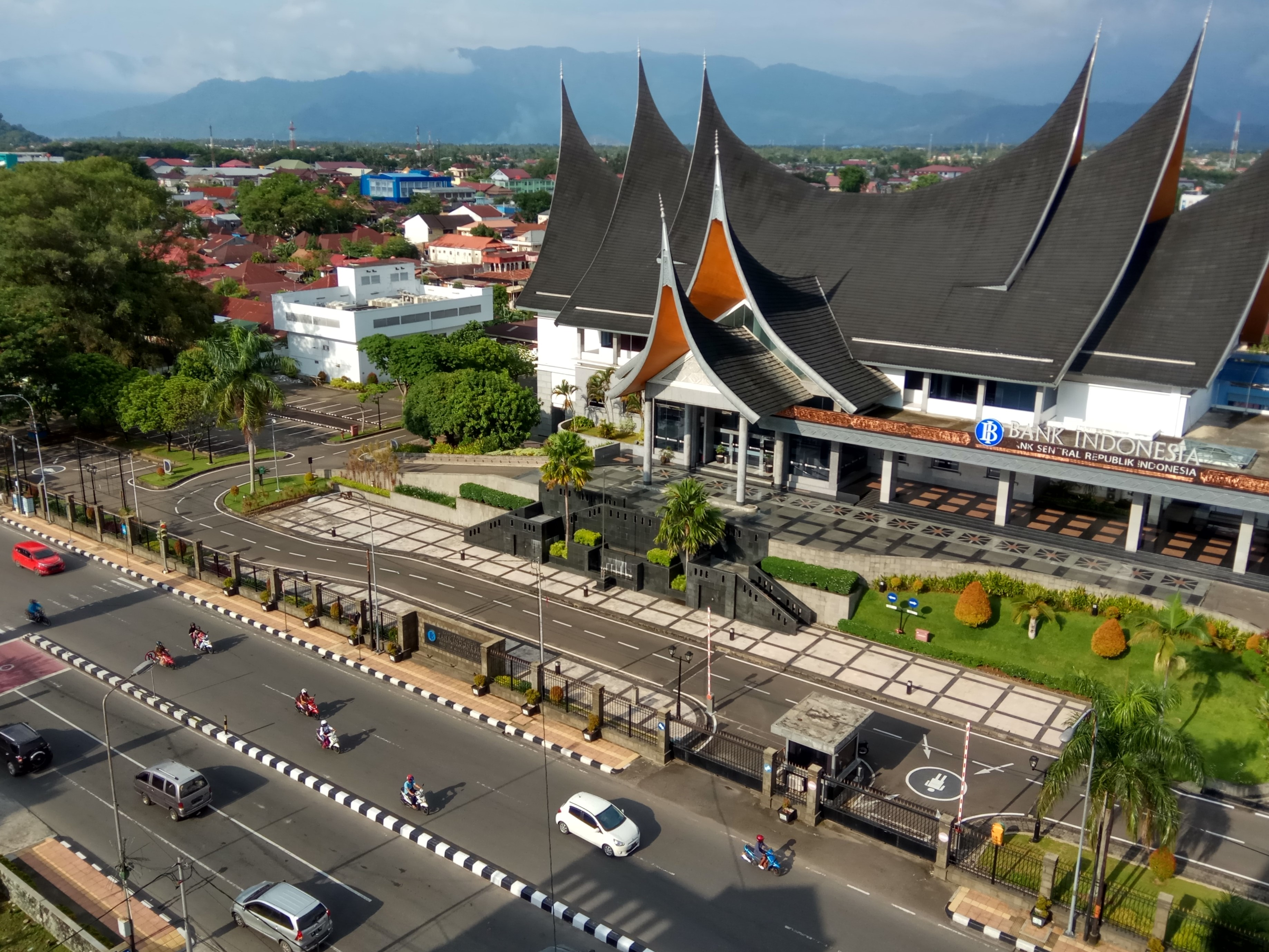 Gedung BI Padang dan Jalan Sudirman Padang